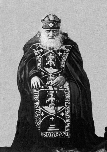 Saint Jonah, Ukrainian Orthodox miracle-worker of Kyiv, elder and prophet (1802-1902)